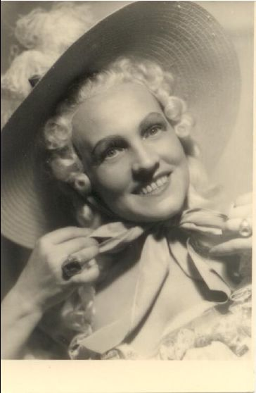 Musial als Fiordiligi